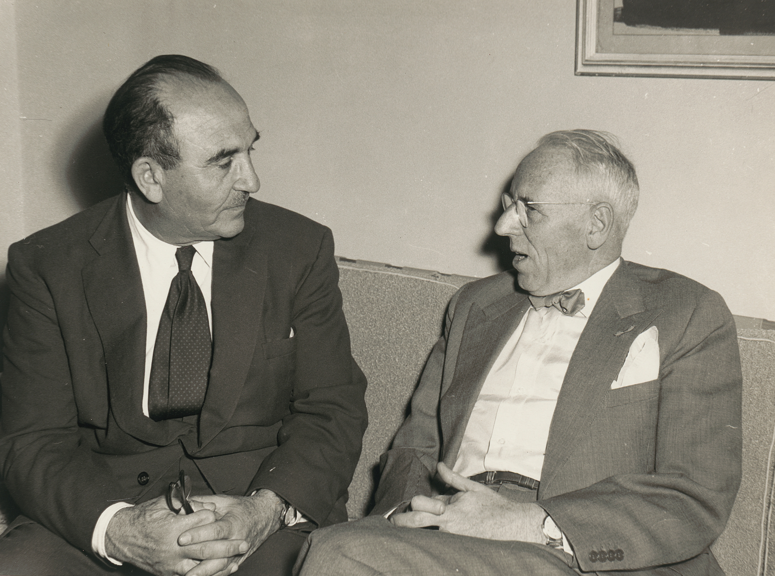 Levi Eschol